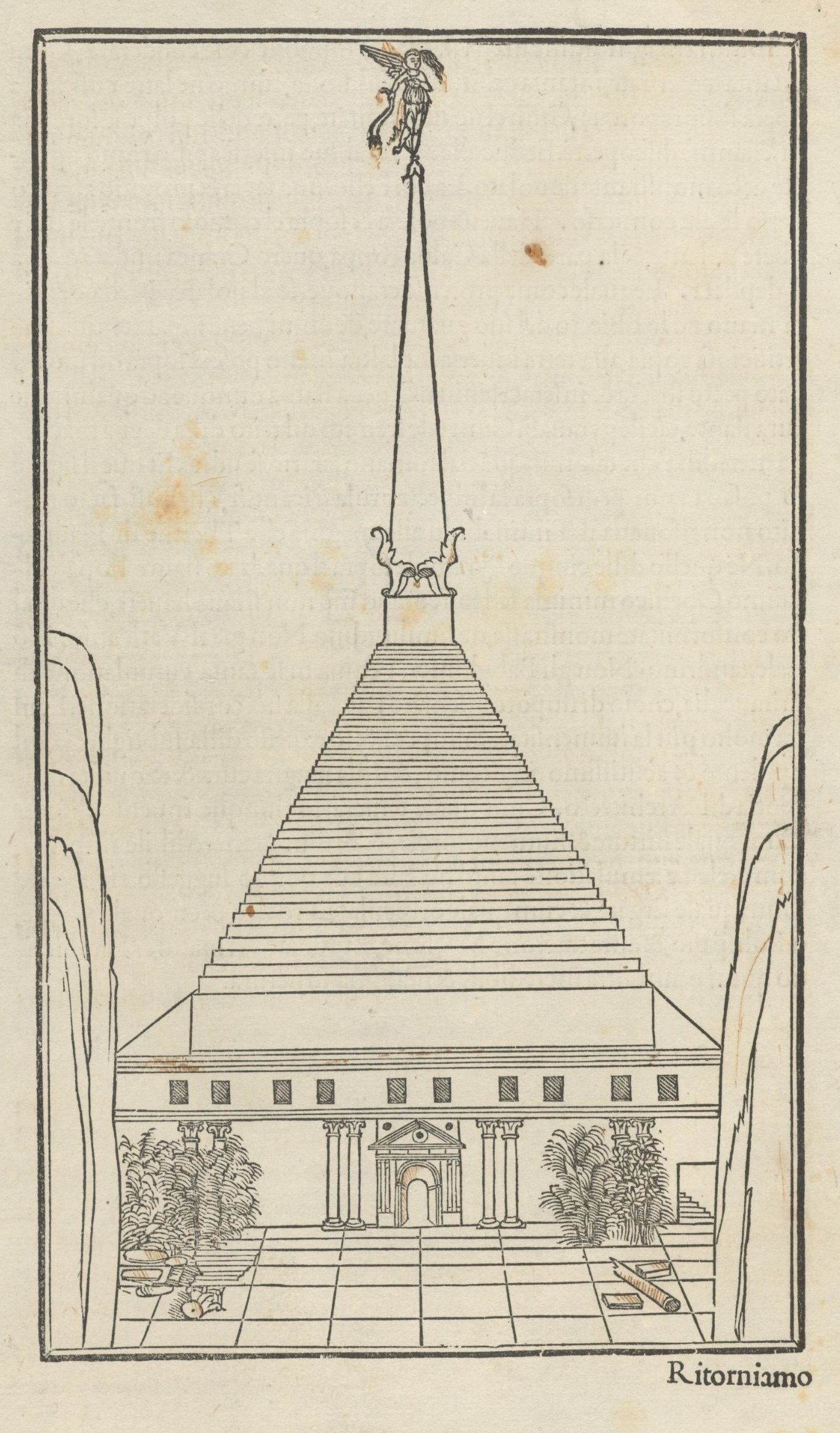 Illustration from Hypnerotomachia Poliphili, Venice: 1499, by Francesco Colonna. WKR 3.5.4, Houghton Library, Harvard University